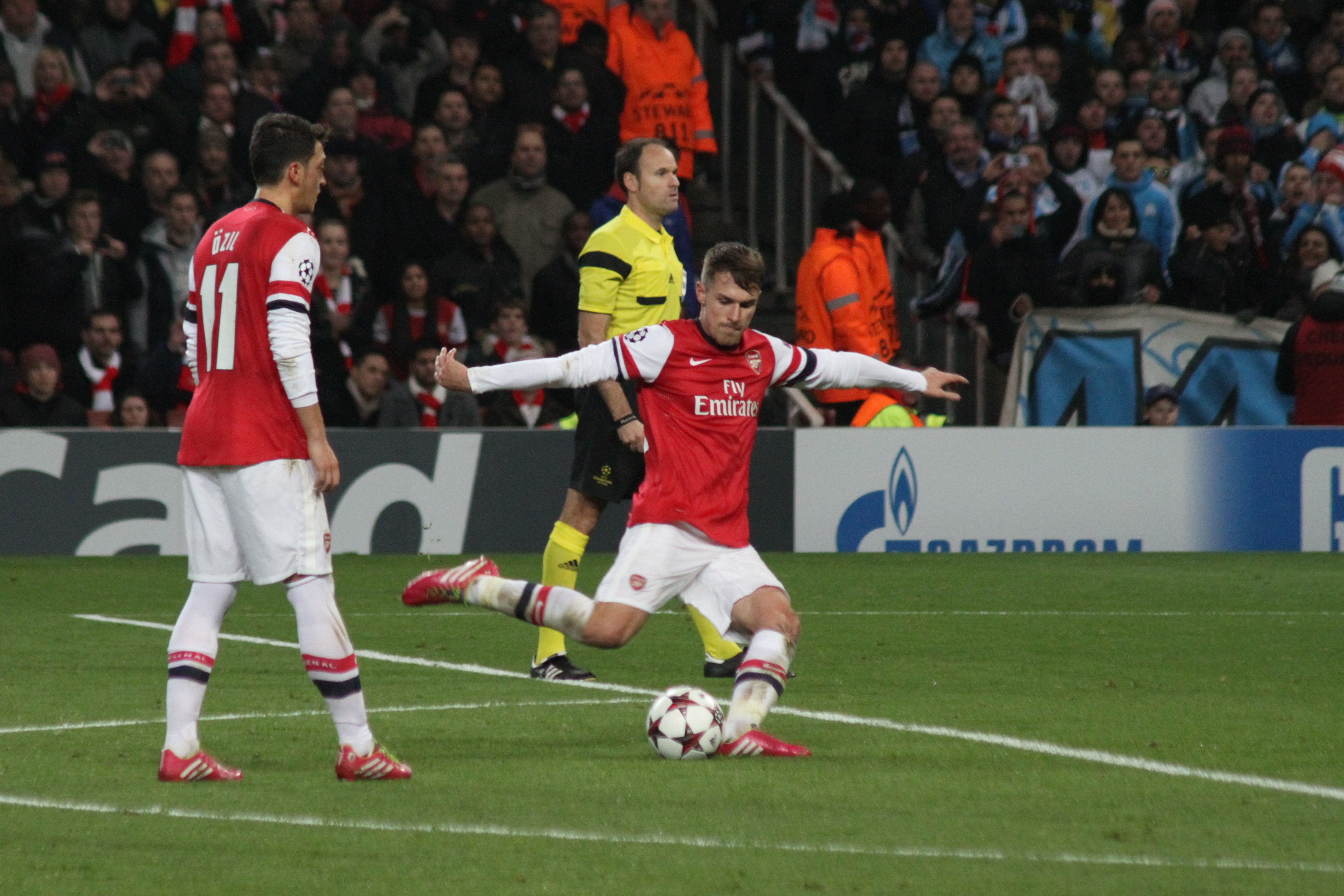 Ramsey free kick